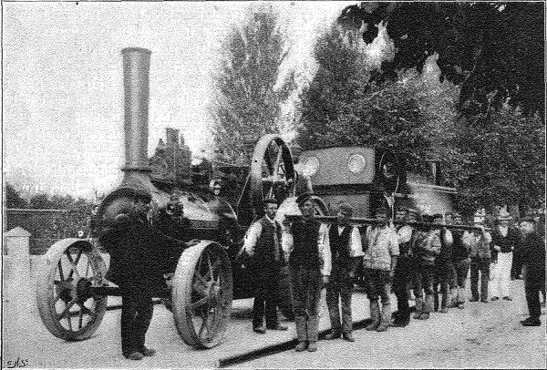 Locomotive Chichester being taken by road for West Sussex Railway construction